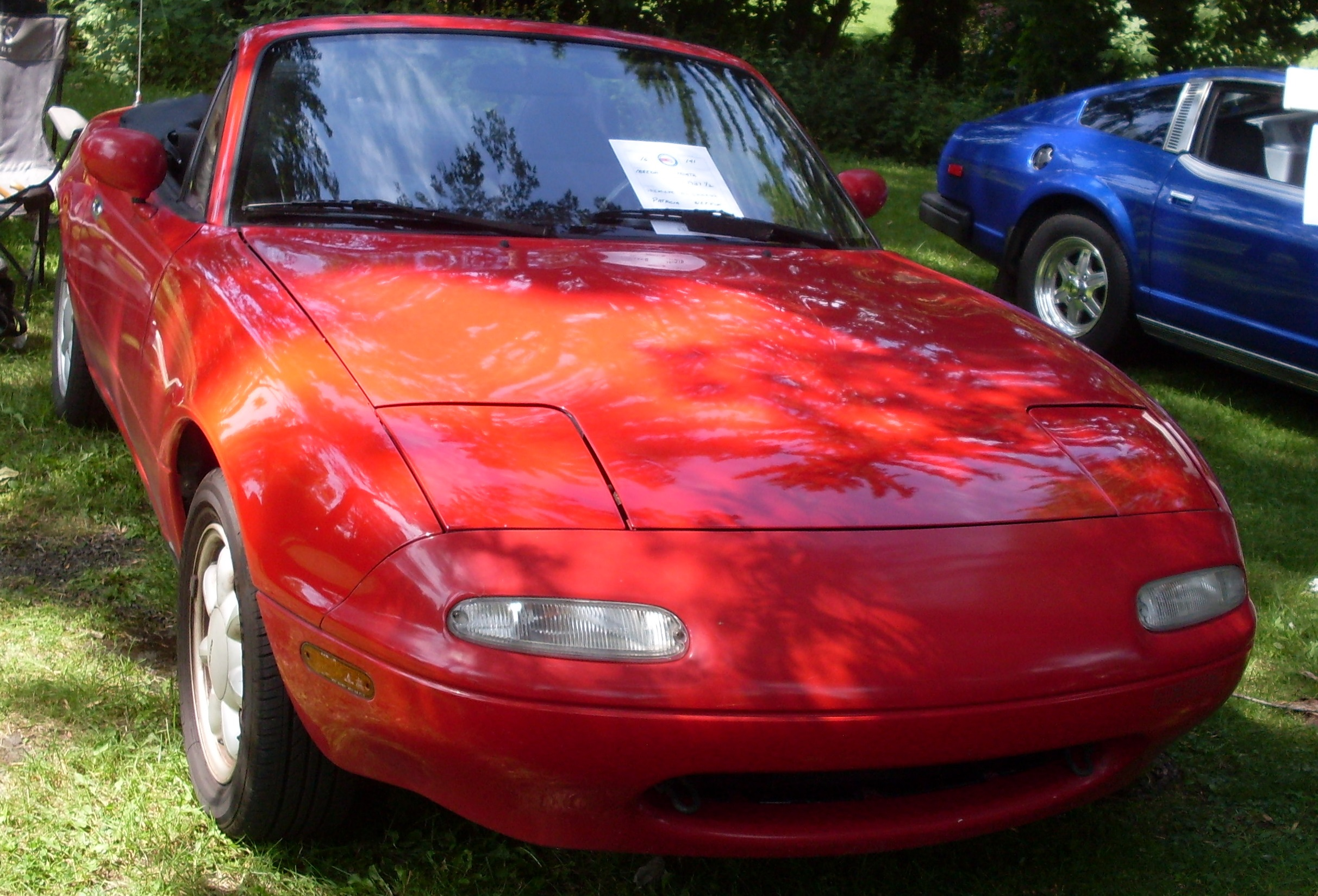 1989 Mazda Miata photographed in Beaconsfield, Quebec, Canada at Auto classique VAQ Beacosnfield 2013.